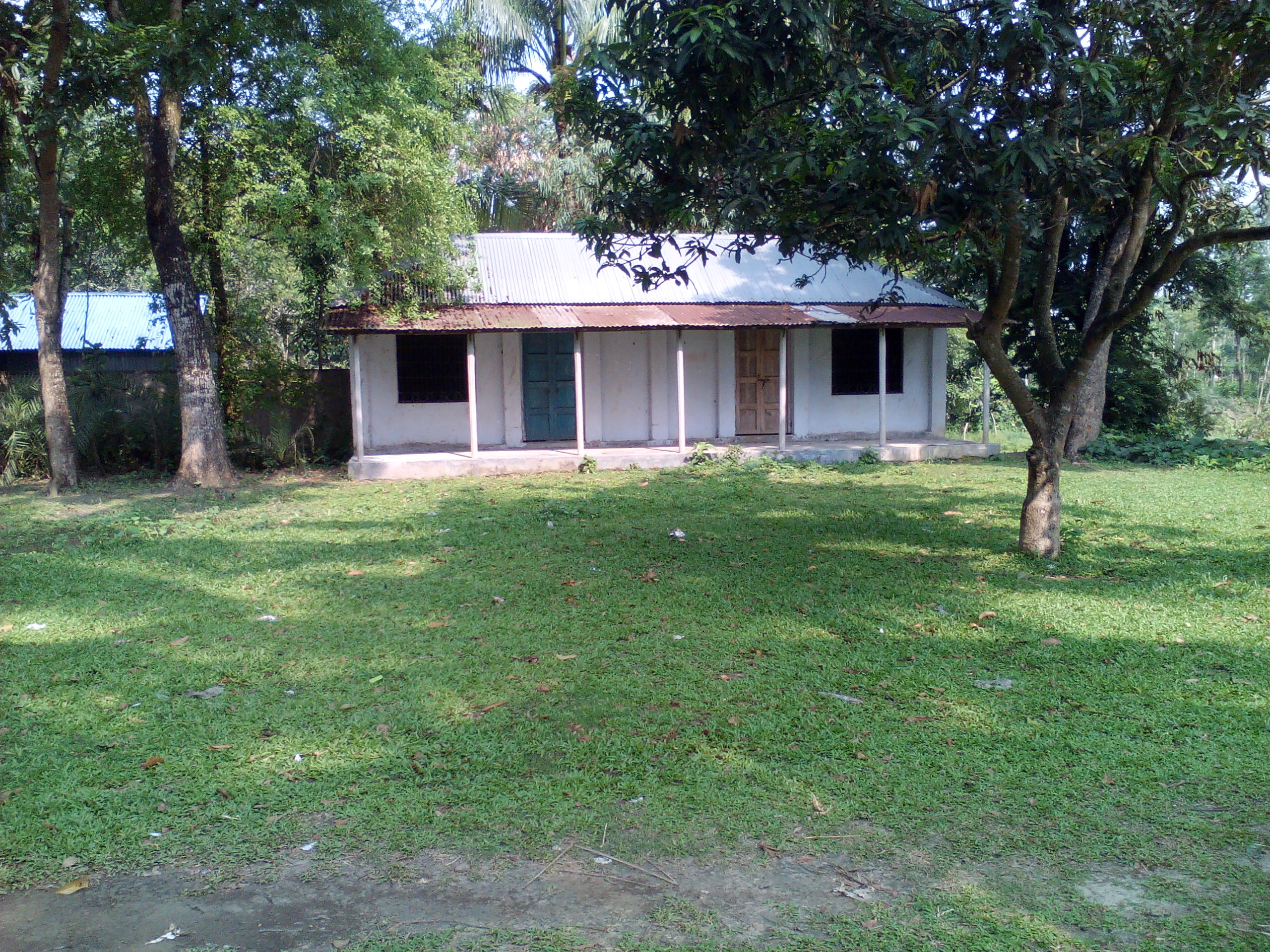 Campus Mosque